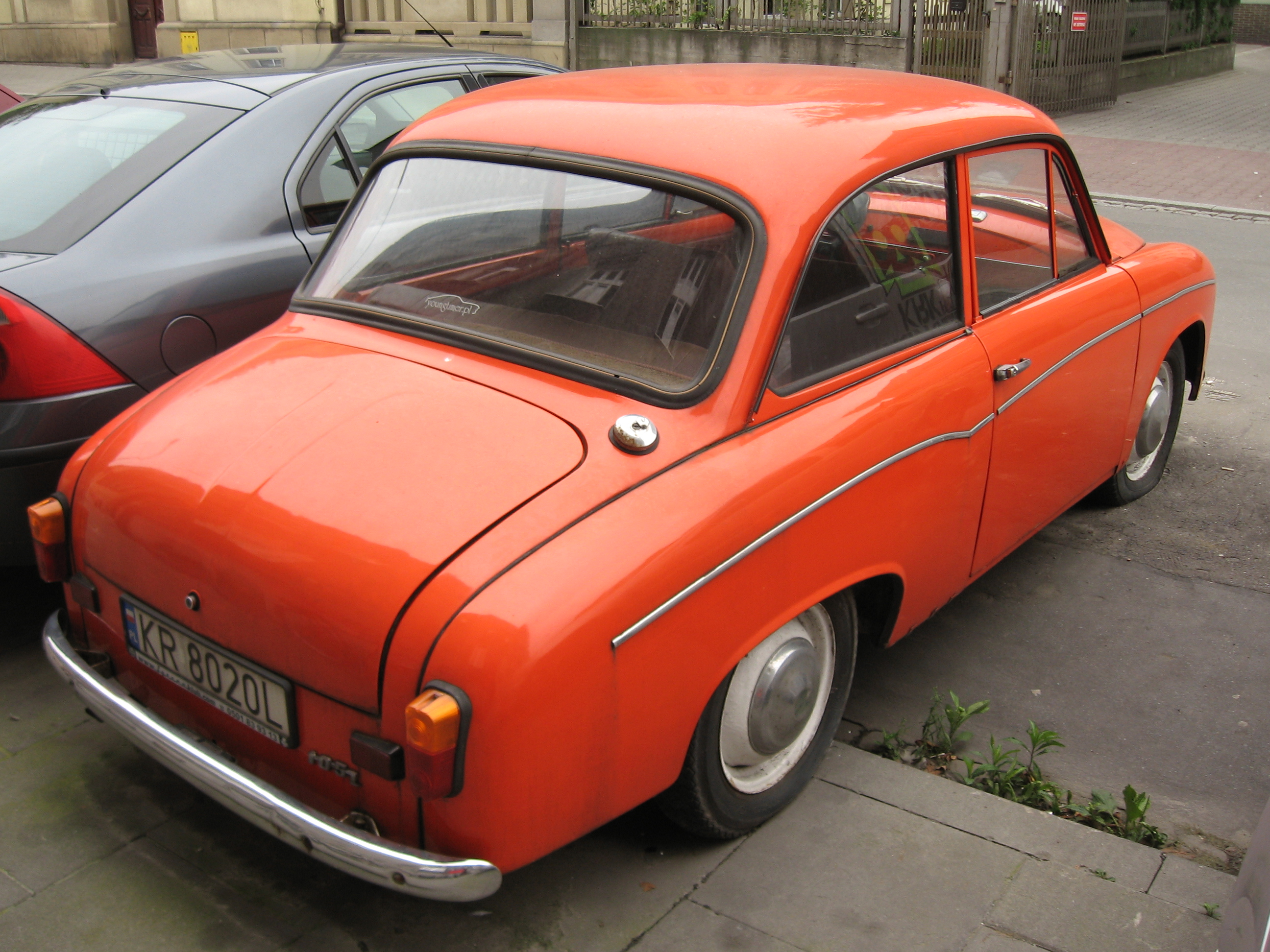 FSM Syrena 105L car in Kraków, Poland.